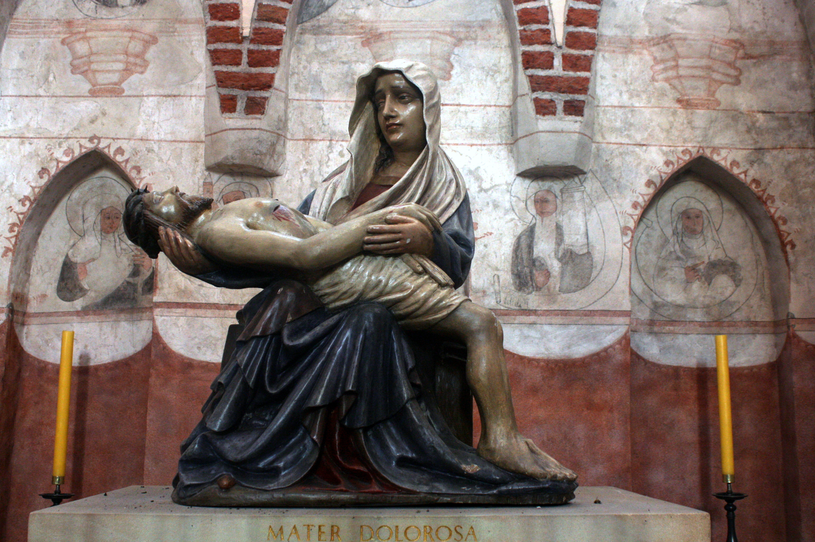 Tczew, Holy Cross Church